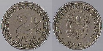 A 2½ centesimos coin of Panama from 1907.